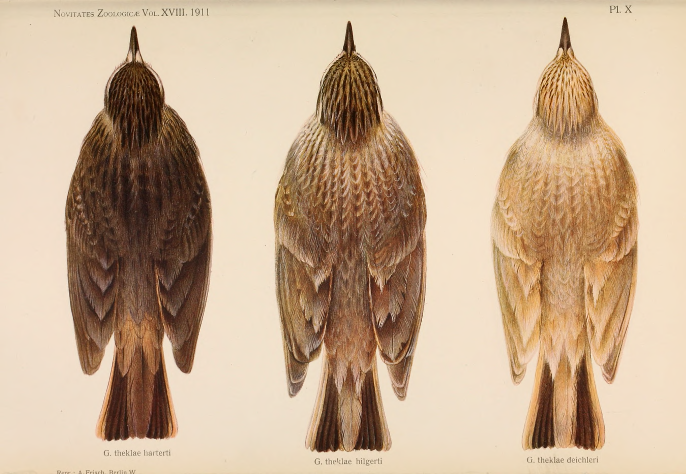 Thekla Larks from dorsal